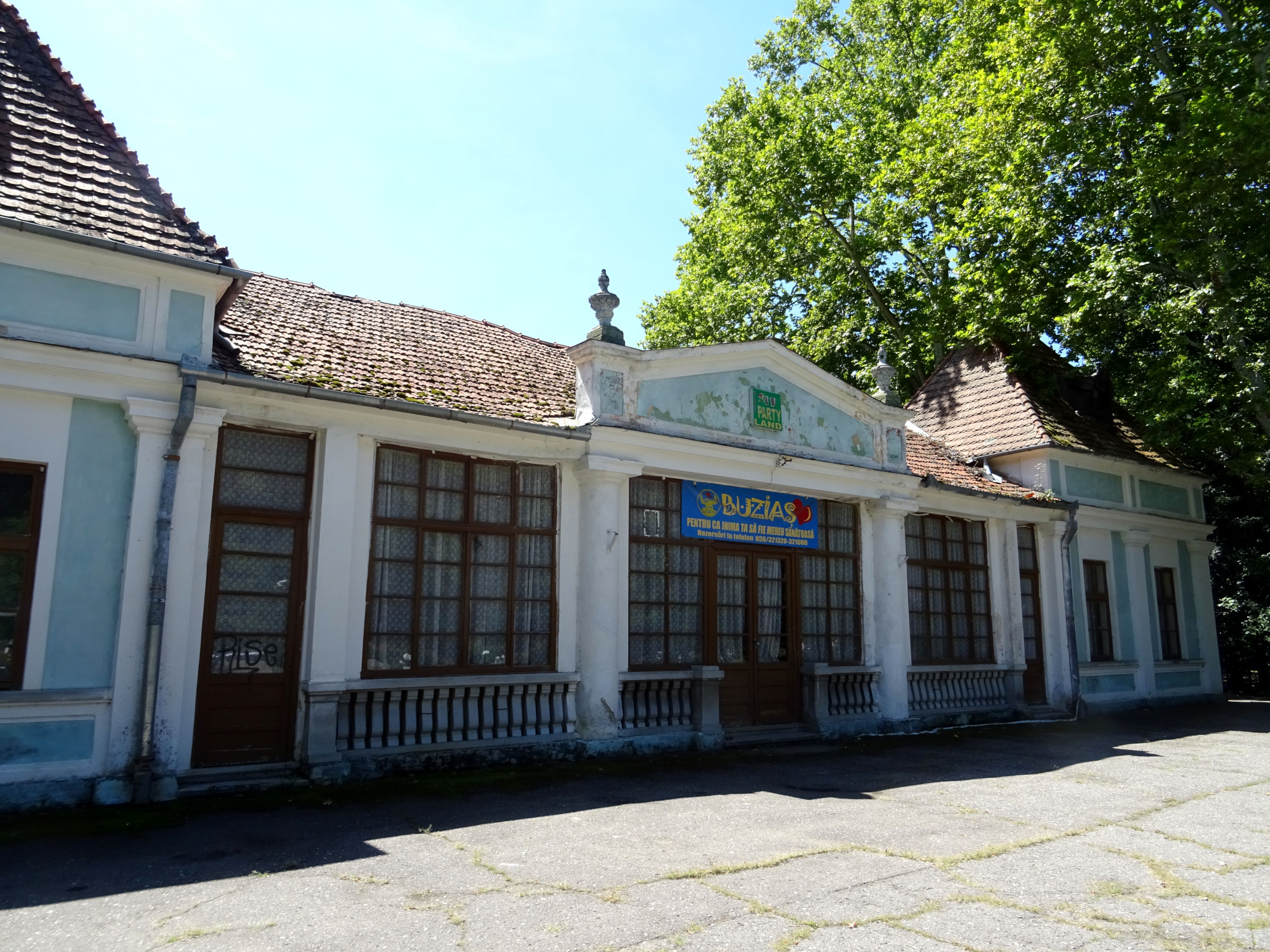 The former Casino in Buzias park